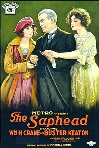 Poster for The Saphead - Metro Pictures, 1920, starring William H. Crane, Buster Keaton, directed by Herbert Blaché & Winchell Smith.